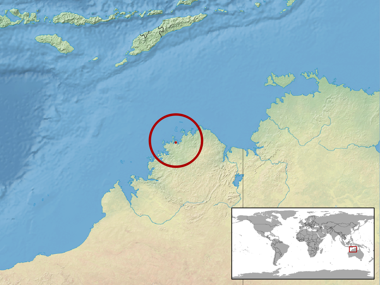 geographic distribution of Diporiphora convergens (Native: Australia)